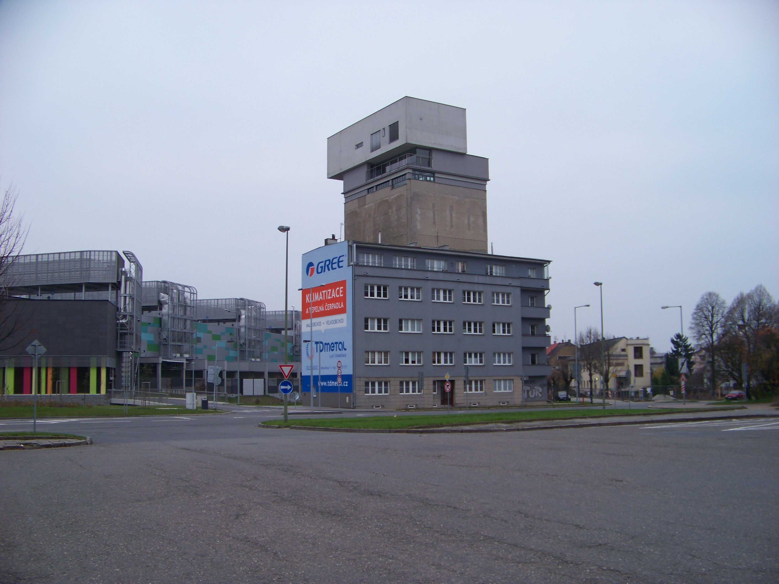 Olomouc, Olomouc District, Olomouc Region, Czech Republic. From the bus station "Olomouc, Tržnice plocha", buildings Polská 770/9, 942/7.